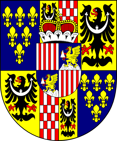 Coat of arms (shield only) of Philipp Gotthard von Schaffgotsch, bishop of Wrocław, Poland (1748 - 1795).